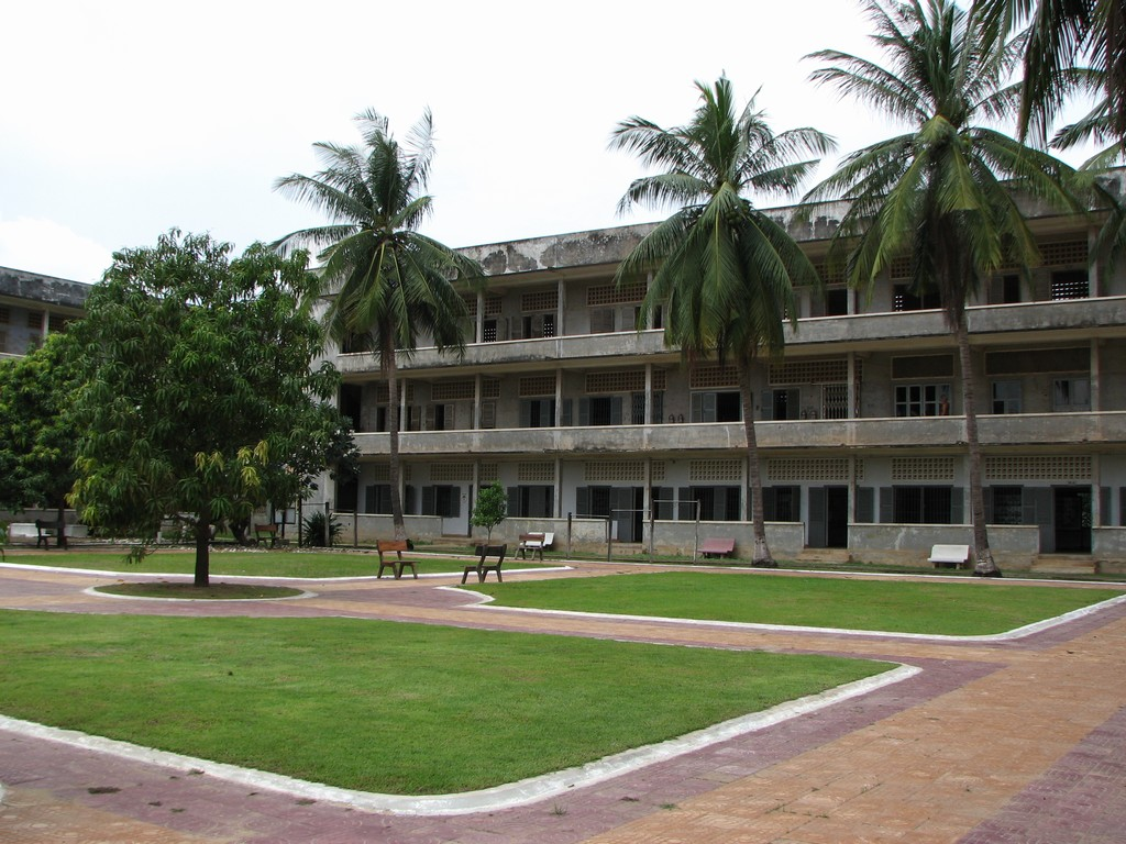 Tuol Sleng is the former Tuol Svay Prey high school which was taken over by the Rode Khmer in 1975 and used by the special security service of Pol Pot. The building was used as a prison (S-21) and torture chamber. The prisoners were "interrogated" (tortured) in the building to the left. The large building is one of the prison cell complexes.